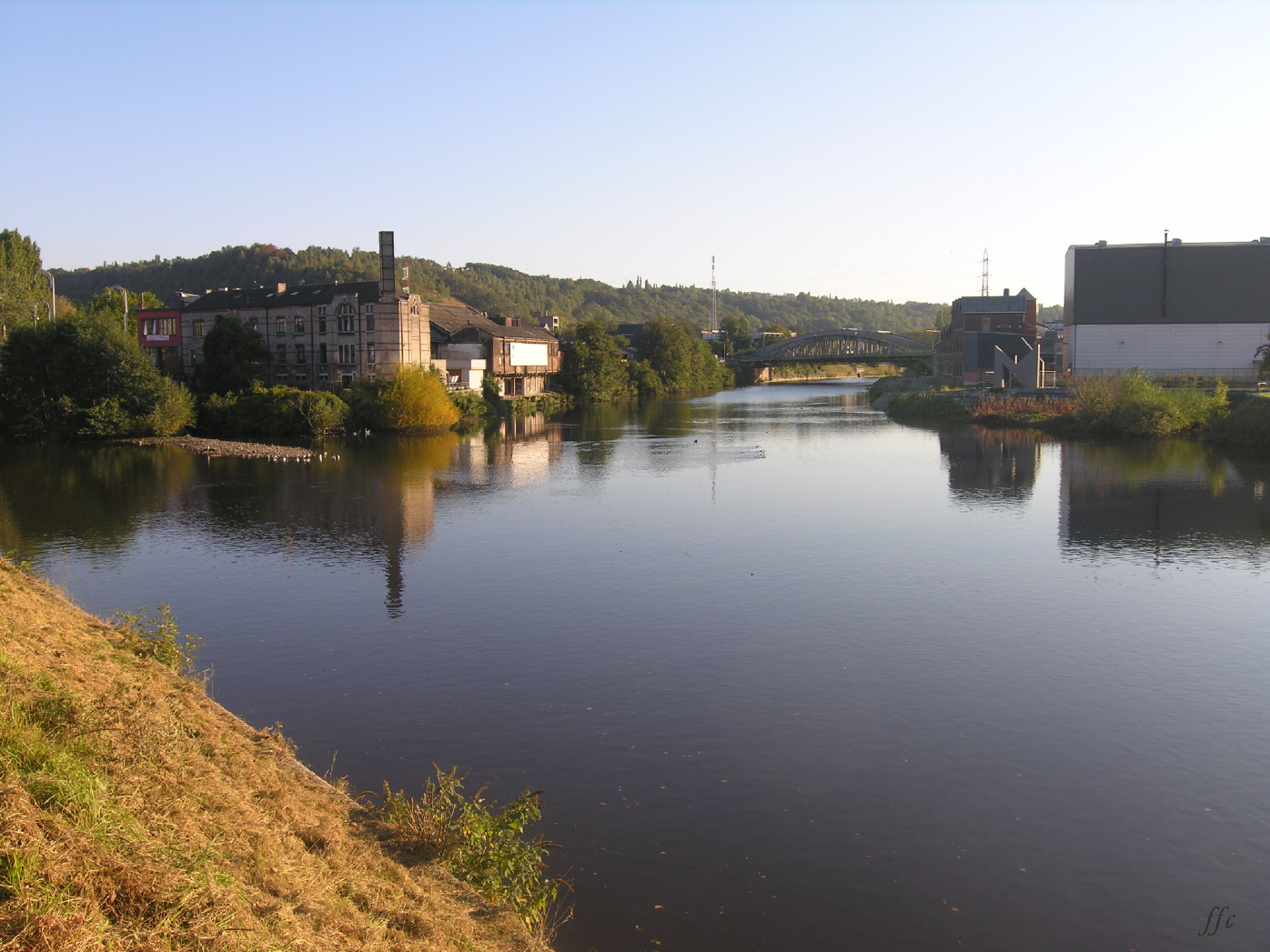 Chênée (Belgium): Confluence of the Vesdre and Ourthe rivers